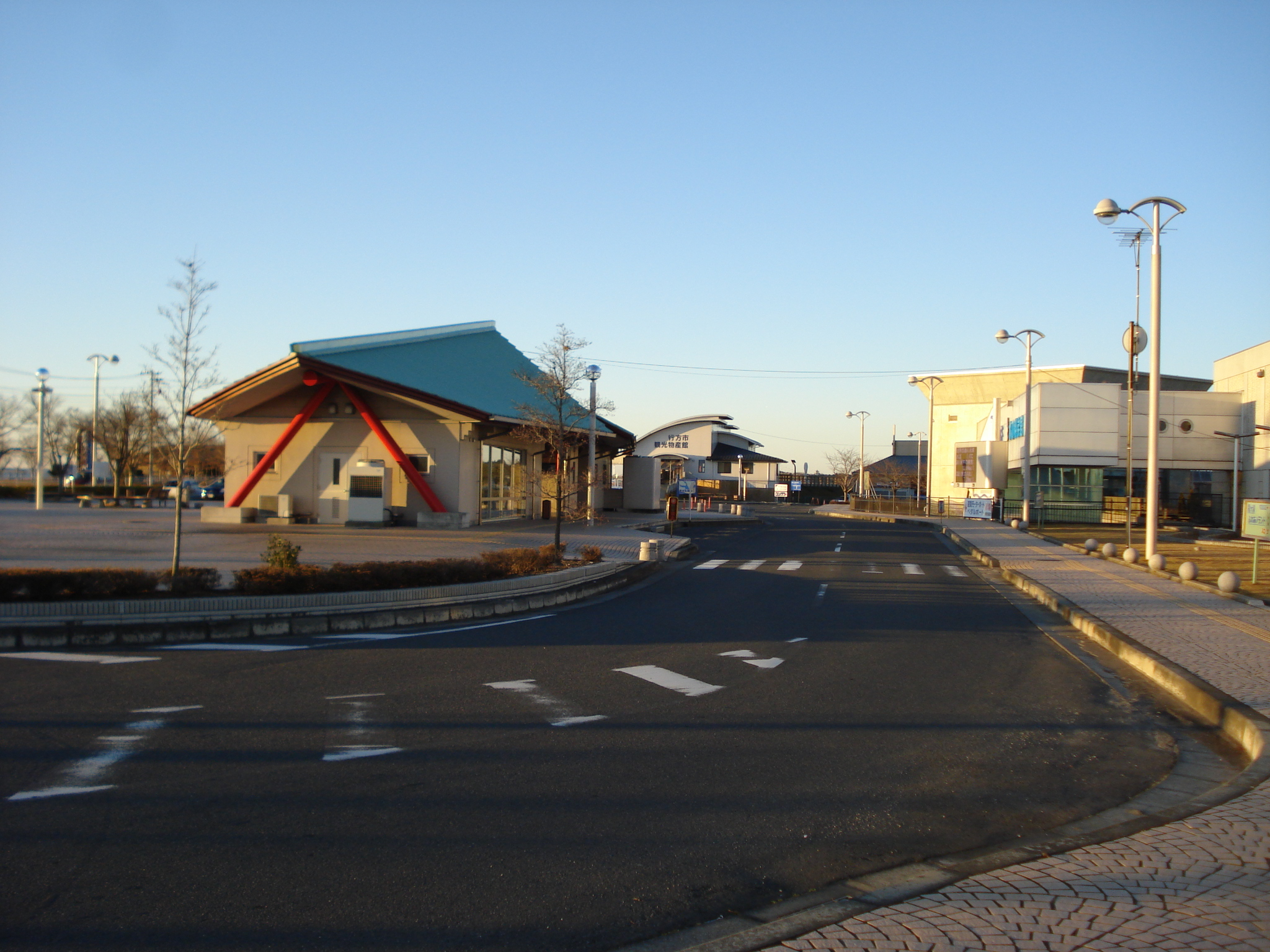 Michinoeki (Roadside Station) Tamatsukuri rest house Namegata-city, Ibaraki